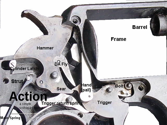 Internal Lockwork of Original 1899 model M&P. Unlike subsequent revolvers, the mainspring is two plained and serves to power the hammer and the trigger return mechanism.